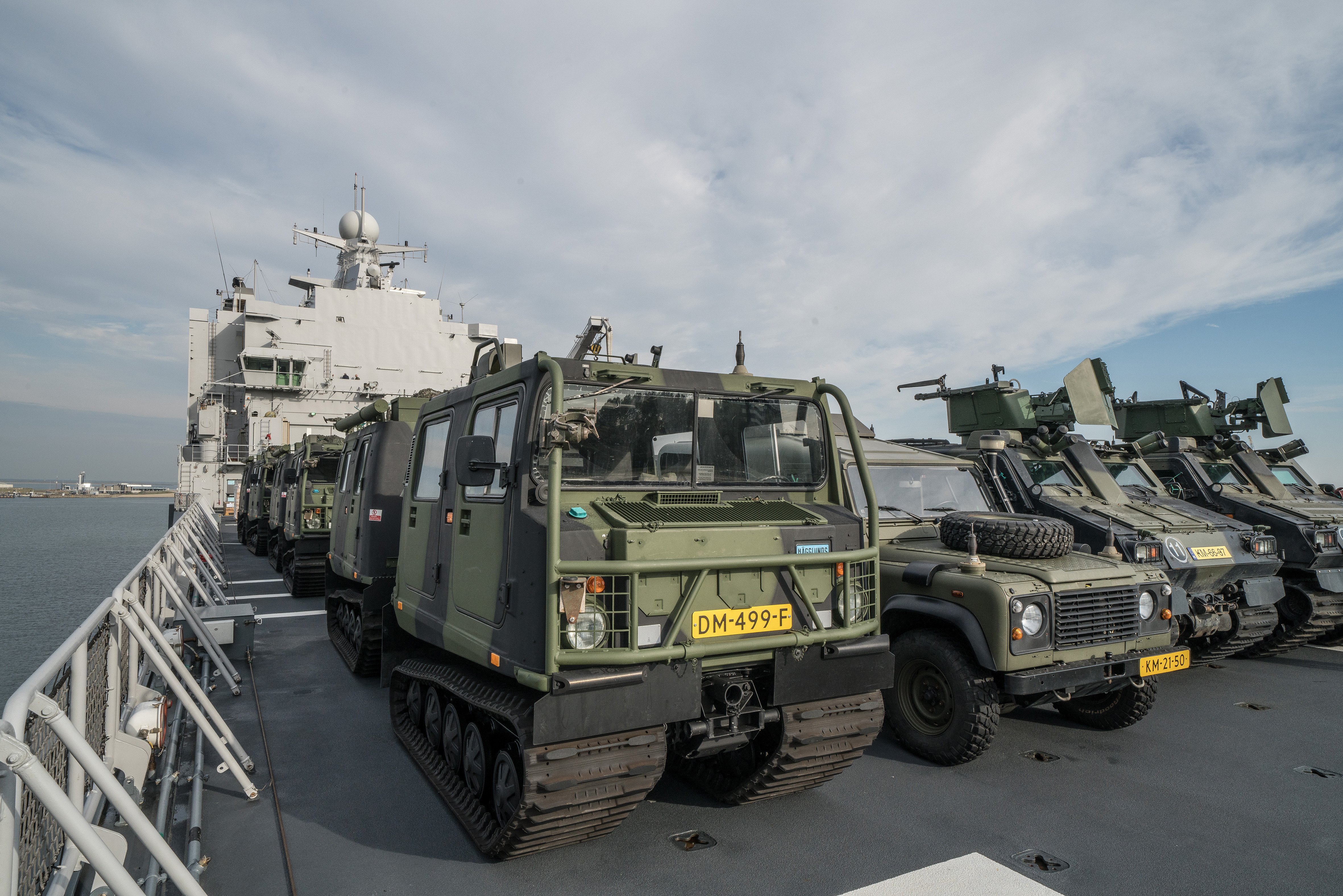 Den Helder, 15 oktober 2018Tijdens het voortraject van Trident Juncture wordt de Zr. Ms. Johan de Witt beladen.